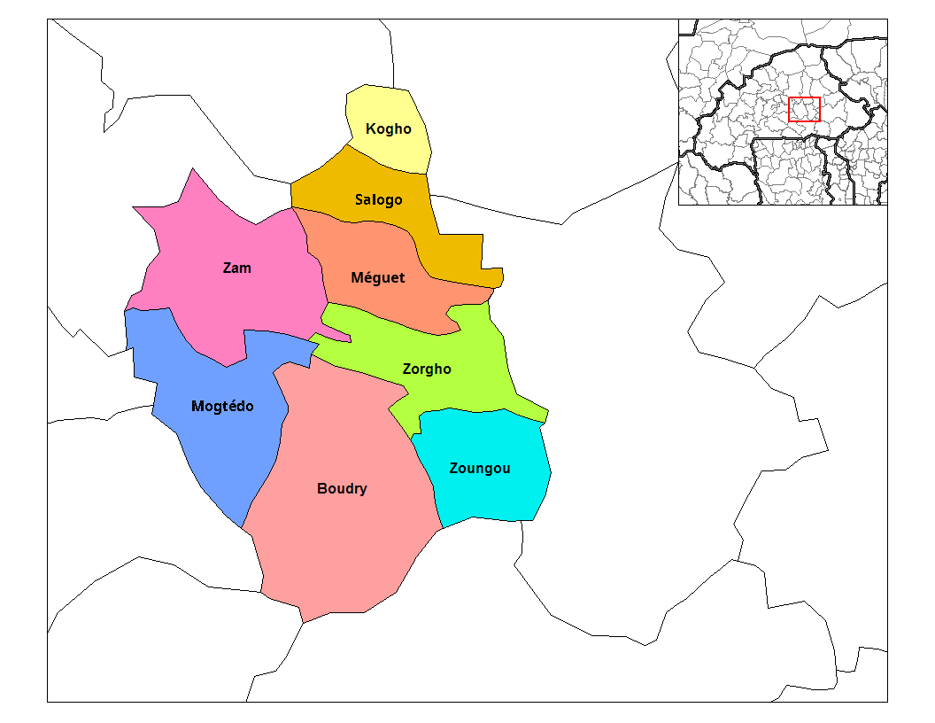 This map has been uploaded by Osiris fancy from to enable the Wikimedia Atlas of the World. Original uploader to was Rarelibra. Osiris fancy is not the creator of this map. Licensing information is below. Map of the departments of Ganzourgou province in Burkina Faso. Created by Rarelibra 03:15, 30 September 2006 (UTC) for public domain use, using MapInfo Professional v8.5 and various mapping resources.